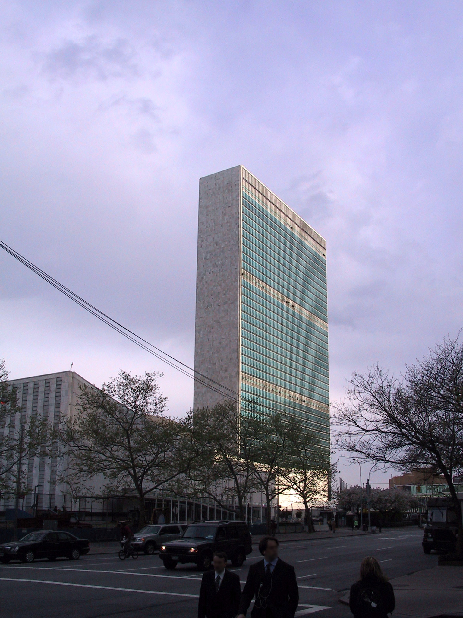 UN Headquarters, NYC